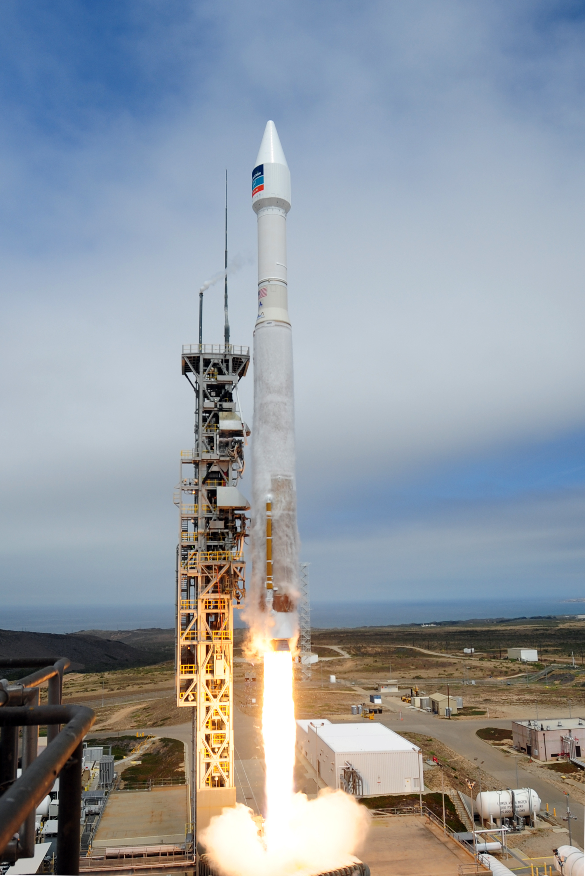 A United Launch Alliance Atlas V rocket carrying a DigitalGlobe WorldView-3 satellite successfully launches from Space Launch Complex-3 at Vandenberg Air Force Base, Aug. 13th, 2014, at 11:30 a.m. PDT.